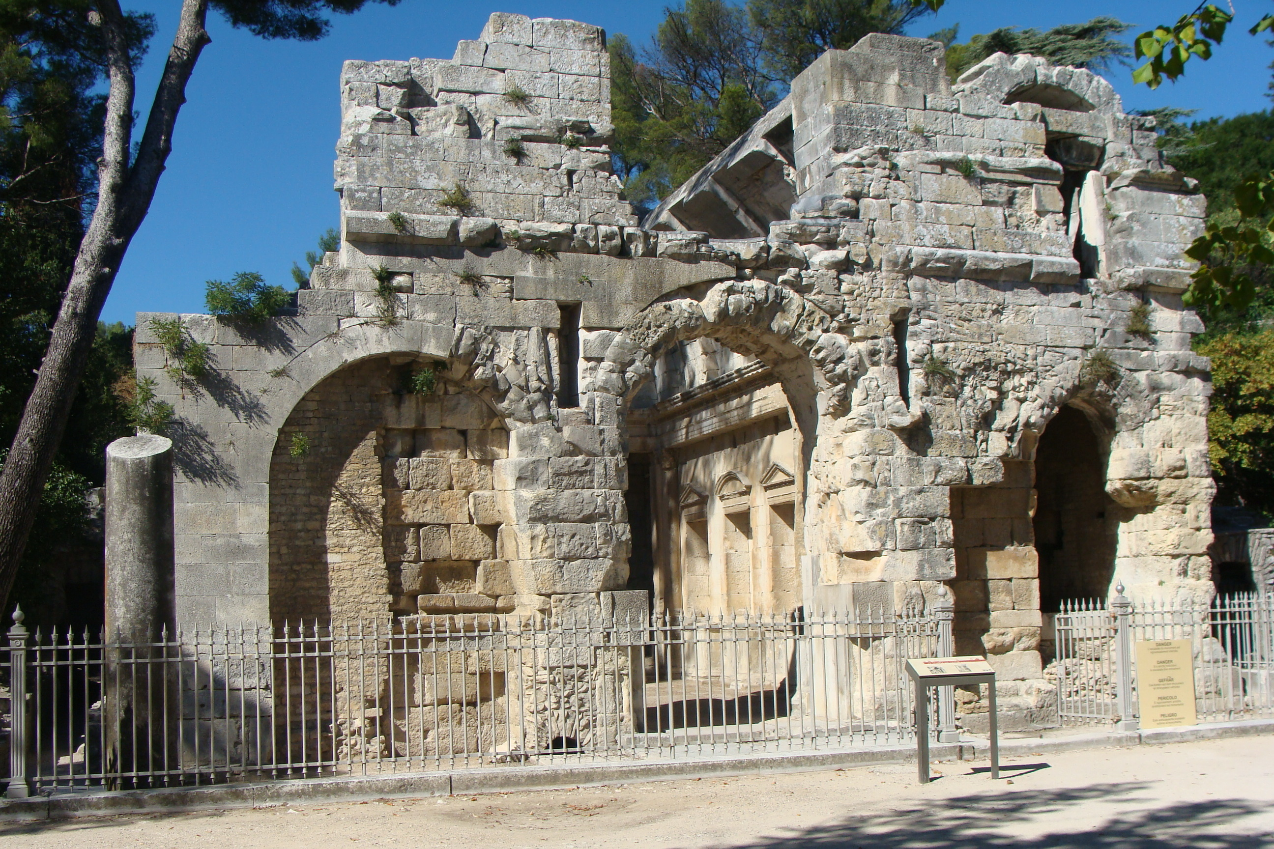 Roman Temple in Nîmes known as Temple de Diane